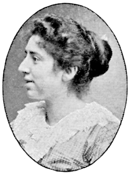 Image scanned from the book "Svenskt Porträttgalleri XX - Arkitekter, Bildhuggare, Målare m.fl. " ("Swedish Portrait Gallery XX - Architects, Sculptors, Painters, ") published 1901